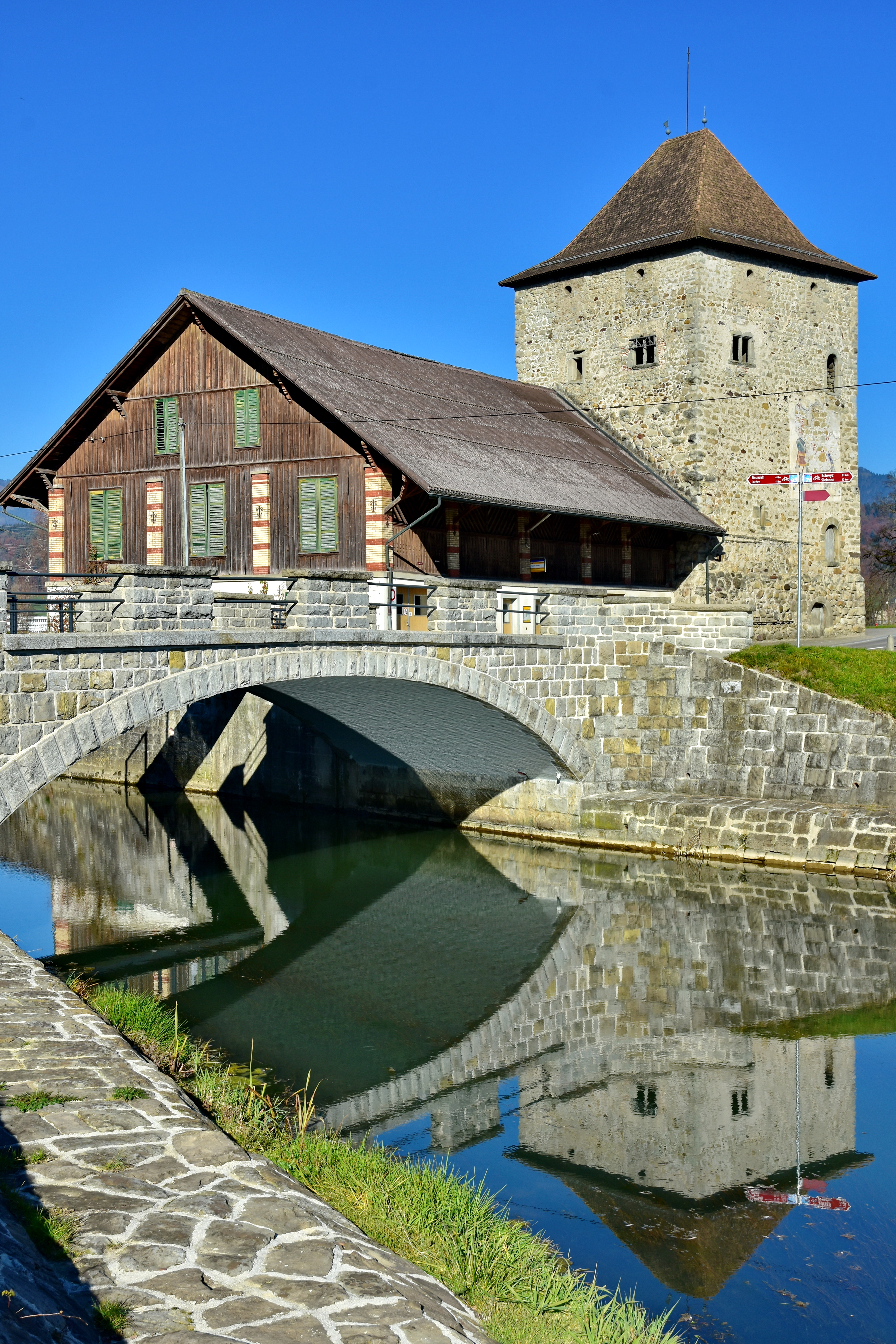 Grynau (Grinau or Schloss Grynau) is a castle tower, situated on the Linth canal in the Swiss municipality of Tuggen in the Canton of Schwyz, that was built by the House of Rapperswil in the early 13th century AD.